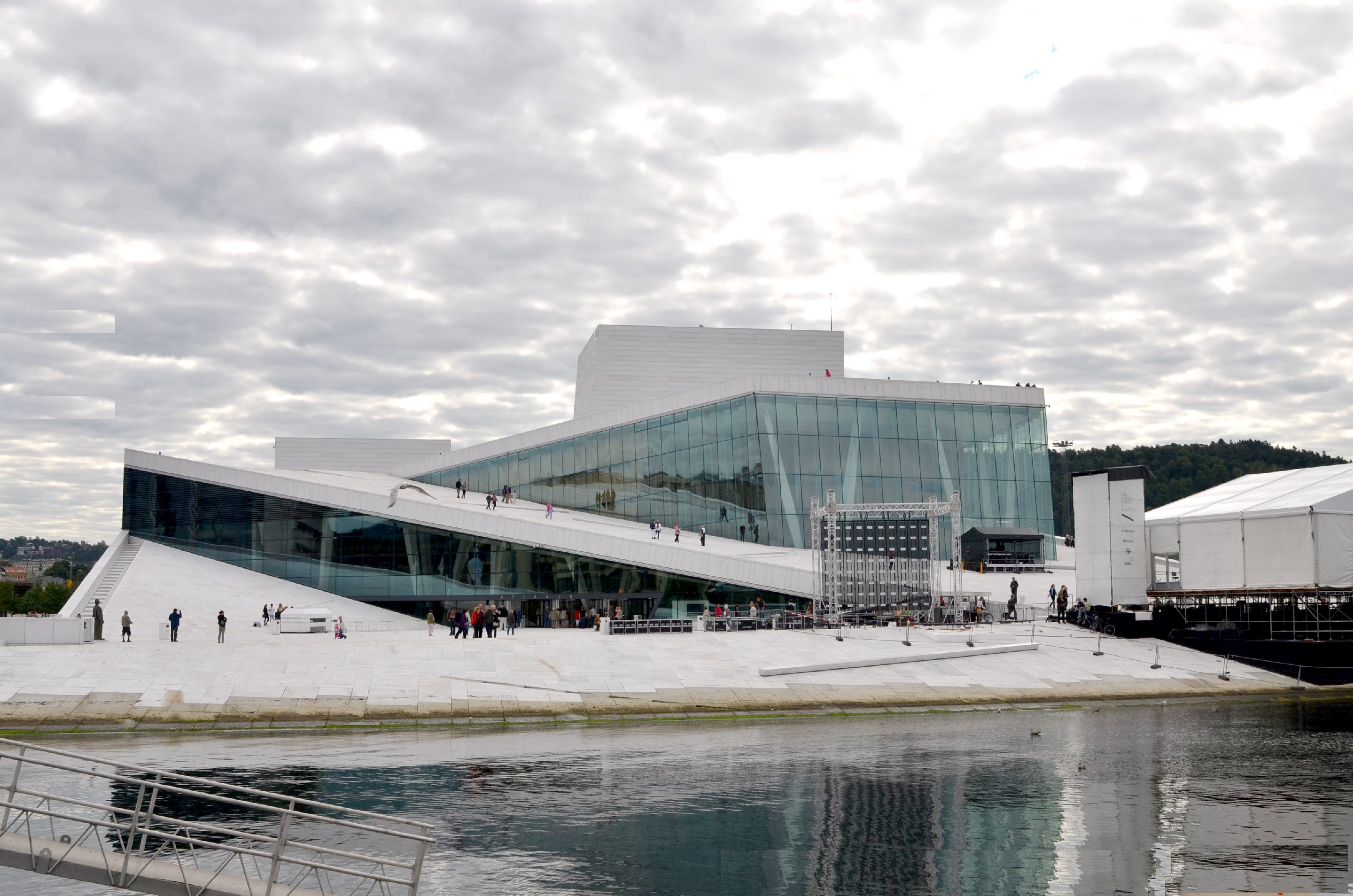 The Oslo "iceberg" Opera House.